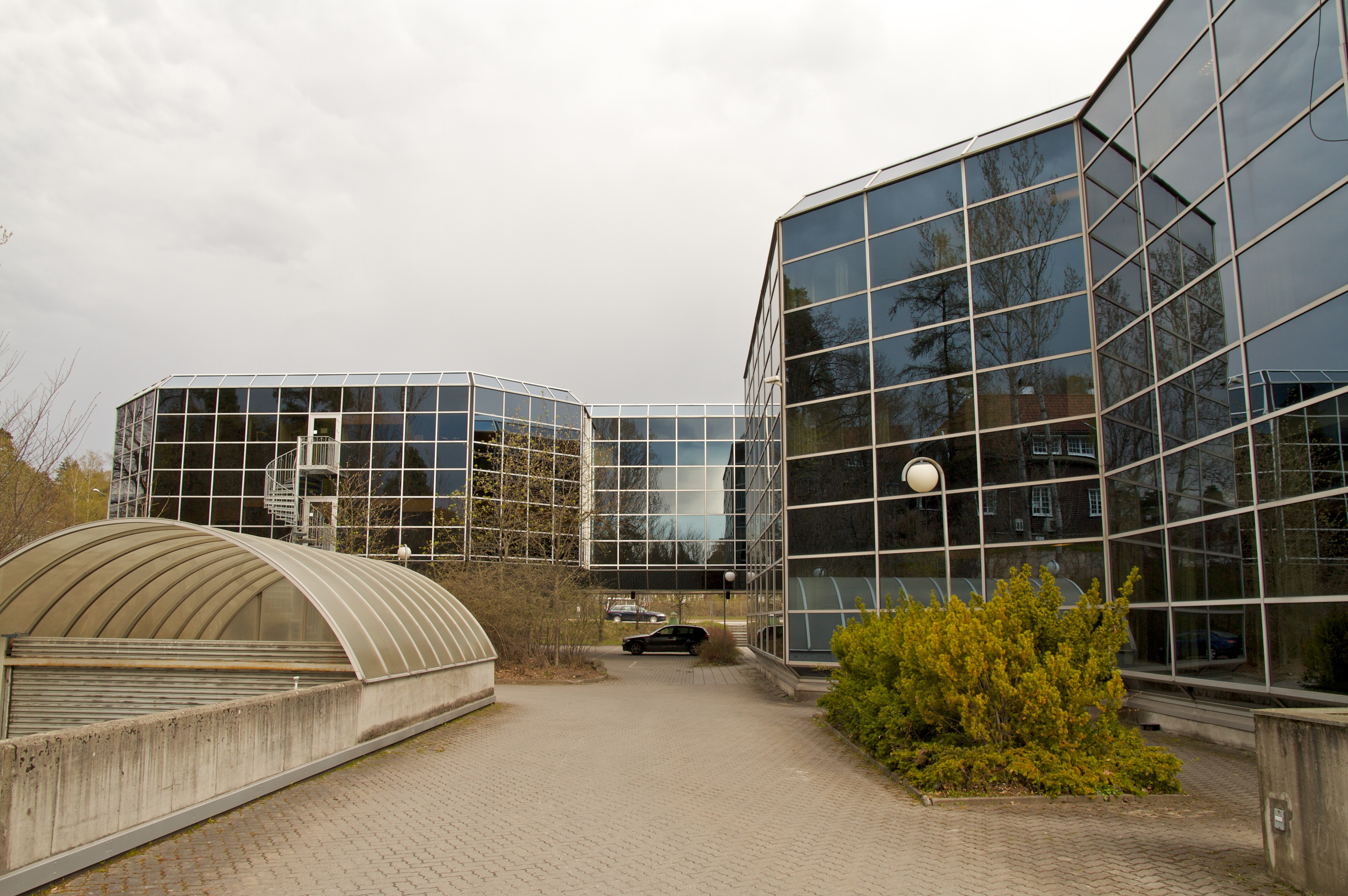 Diamanten (Oksenøyveien 3), an office building located at Fornebu in Bærum, Norway.